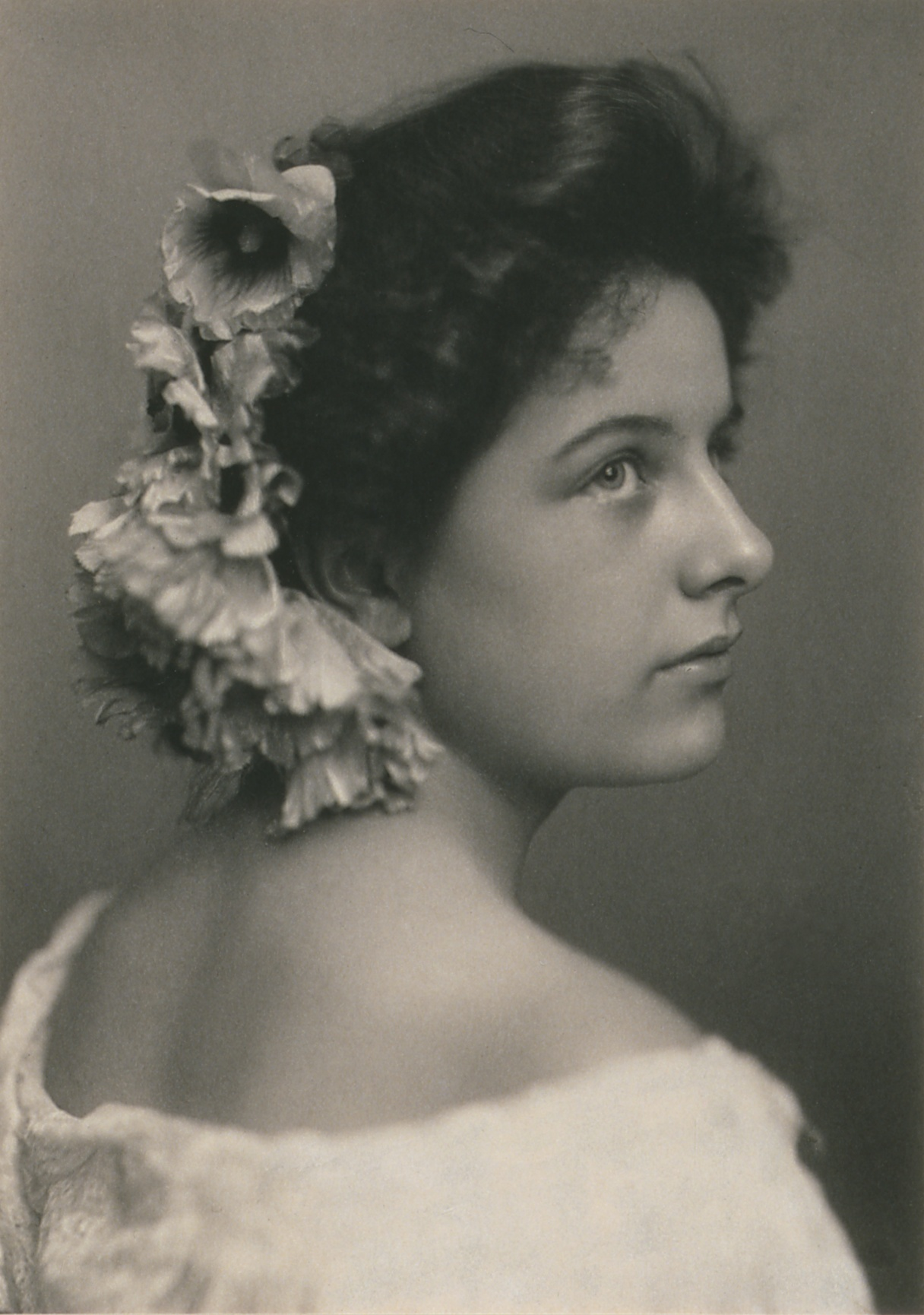 opera singer and film actress Geraldine Farrar, profile portrait